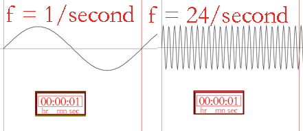 Intended for Simple English to illustrate the idea of frequency